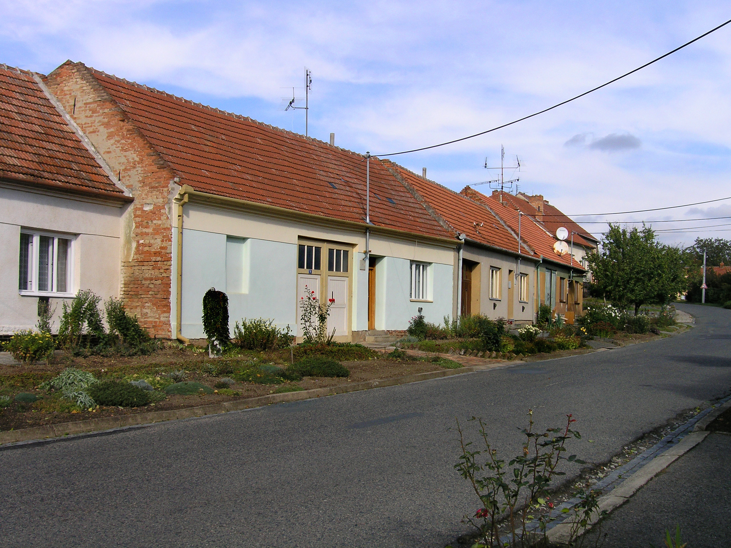 North part of Krumvíř village, Czech Republic